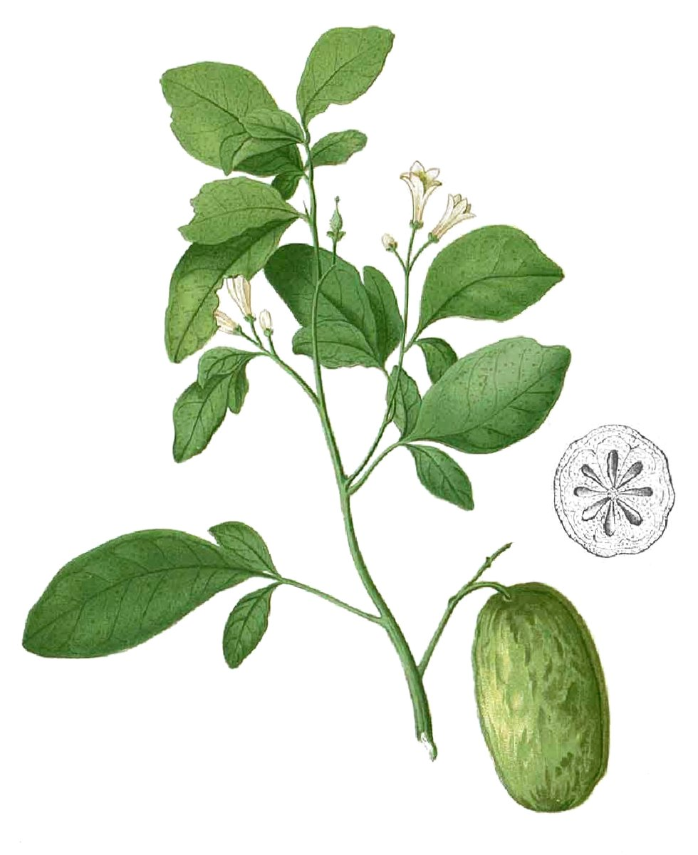 Plate from book